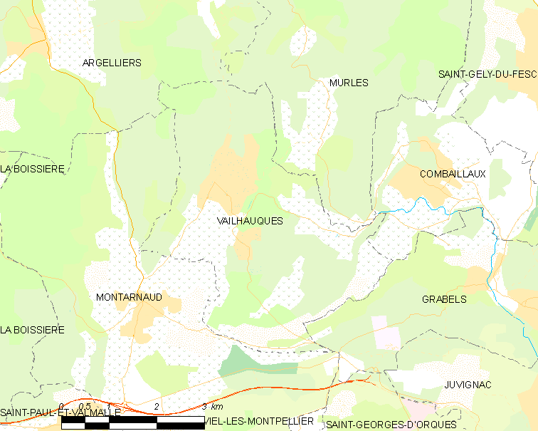 Map commune FR insee code 34320.png - Vailhauquès